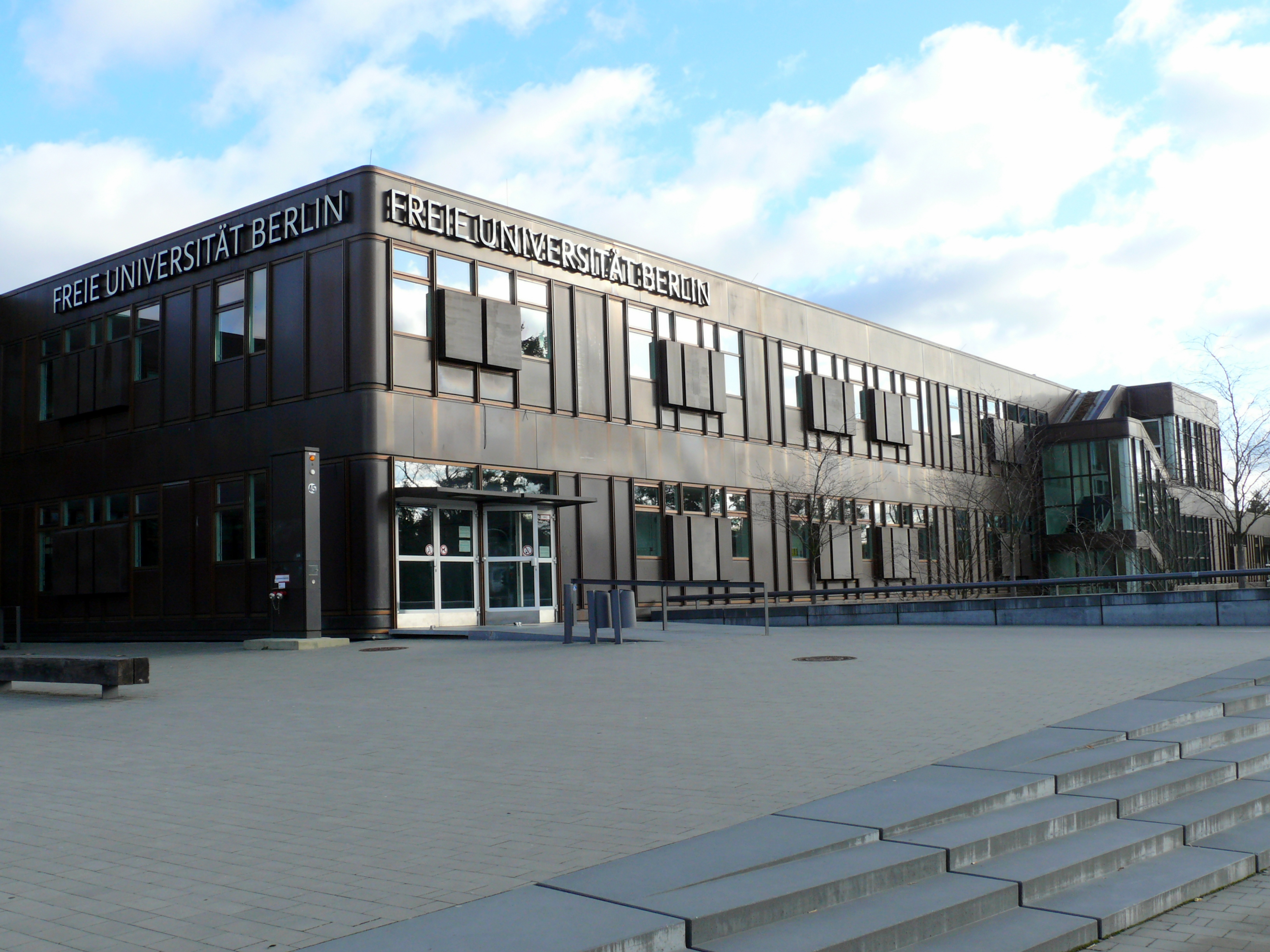 Berlin-Dahlem Habelschwerdter Allee Rostlaube